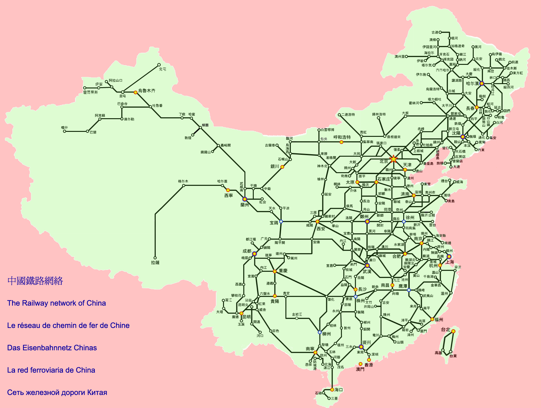 中國鐵路網絡圖(中華人民共和國宣稱的官方疆域版本)。根據2010年3月1日的數據繪制。 The railway network of People's Republic of China. (In the map, the political divisions is claimed People's Republic of China). The map is based on the data as of 1 March 2010.)